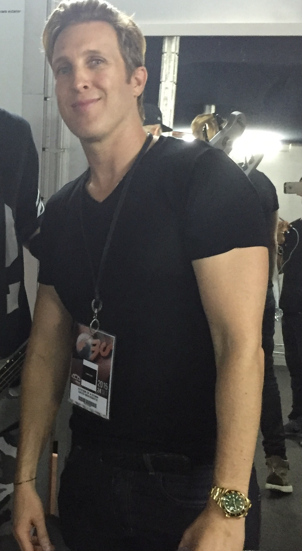 Photo of David Benveniste (Beno) - 2015